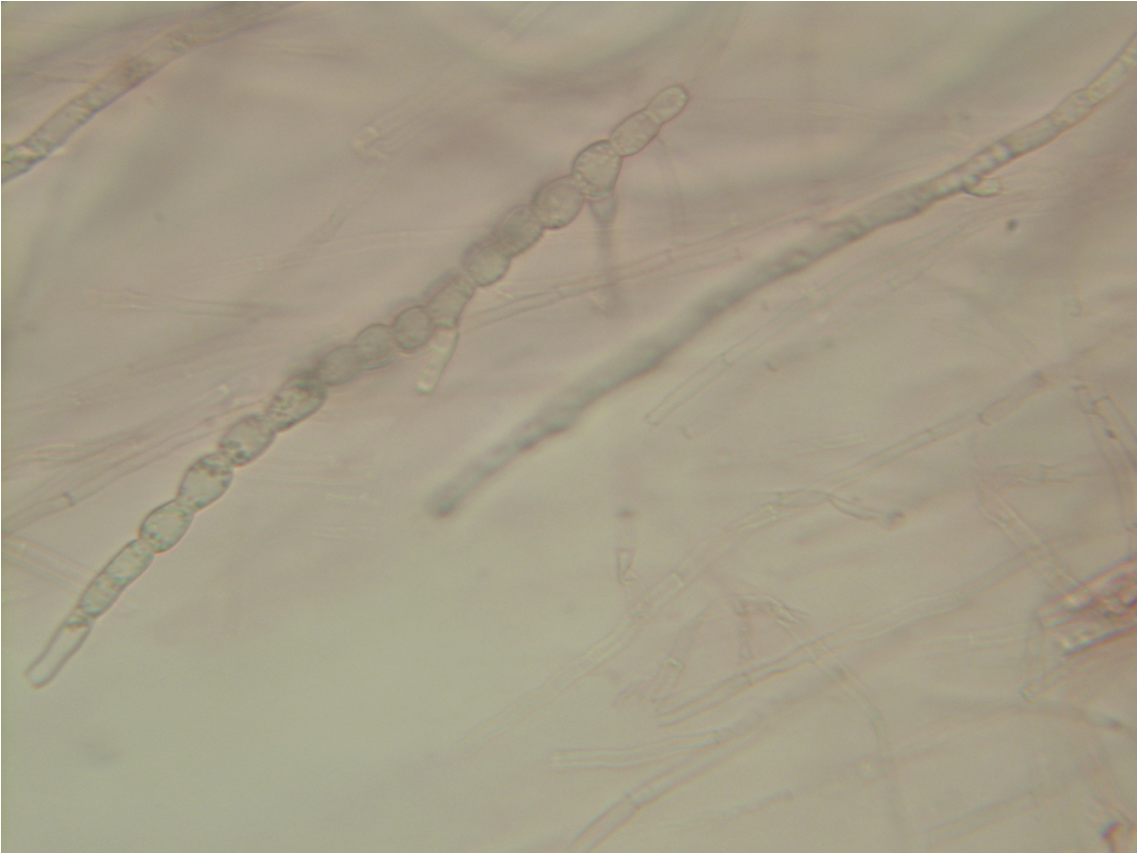 Fusarium chlamydospores magnified 160X. Identified using Barnett, H. L. & Hunter, B. B. (1998) Illustrated Genera of Imperfect Fungi. APS Press: St. Paul, MN; pp. 130–1 ISBN 0-89054-192-2. Recovered from corn (Zea mays L. var. rugosa). Host status confirmed using Farr, D. F., Bills, G. F., Chamuris, G. P., & Rossman, A. Y. (1995) Fungi on Plants and Plant Products in the United States. APS Press: St. Paul, MN; pp. 428–33 ISBN 0-89054-099-3.